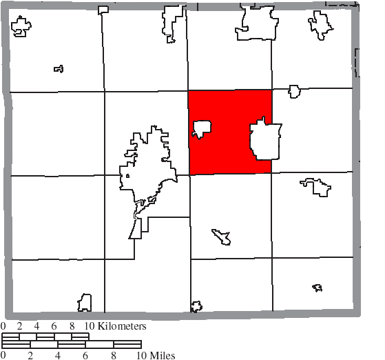 Map of the municipal and township boundaries of Wayne County, Ohio, United States, as of the 2000 census, with the location of Green Township highlighted. Township borders are shown only in unincorporated areas in order to differentiate incorporated and unincorporated areas more clearly.